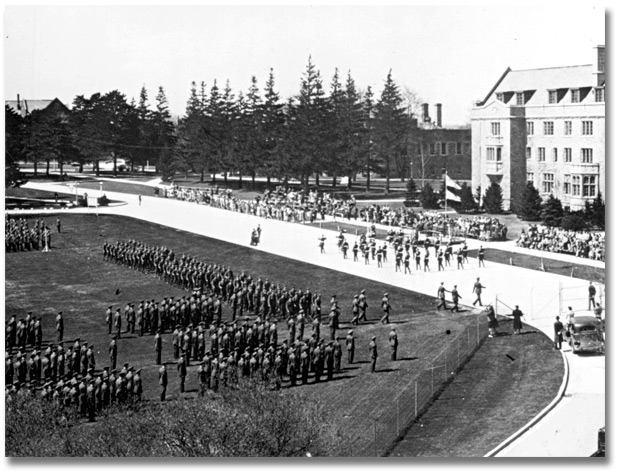 Special review day at Ontario Agricultural College [ca. 1939-46], copyright has expired as it is a photograph that was created before January 1, 1949